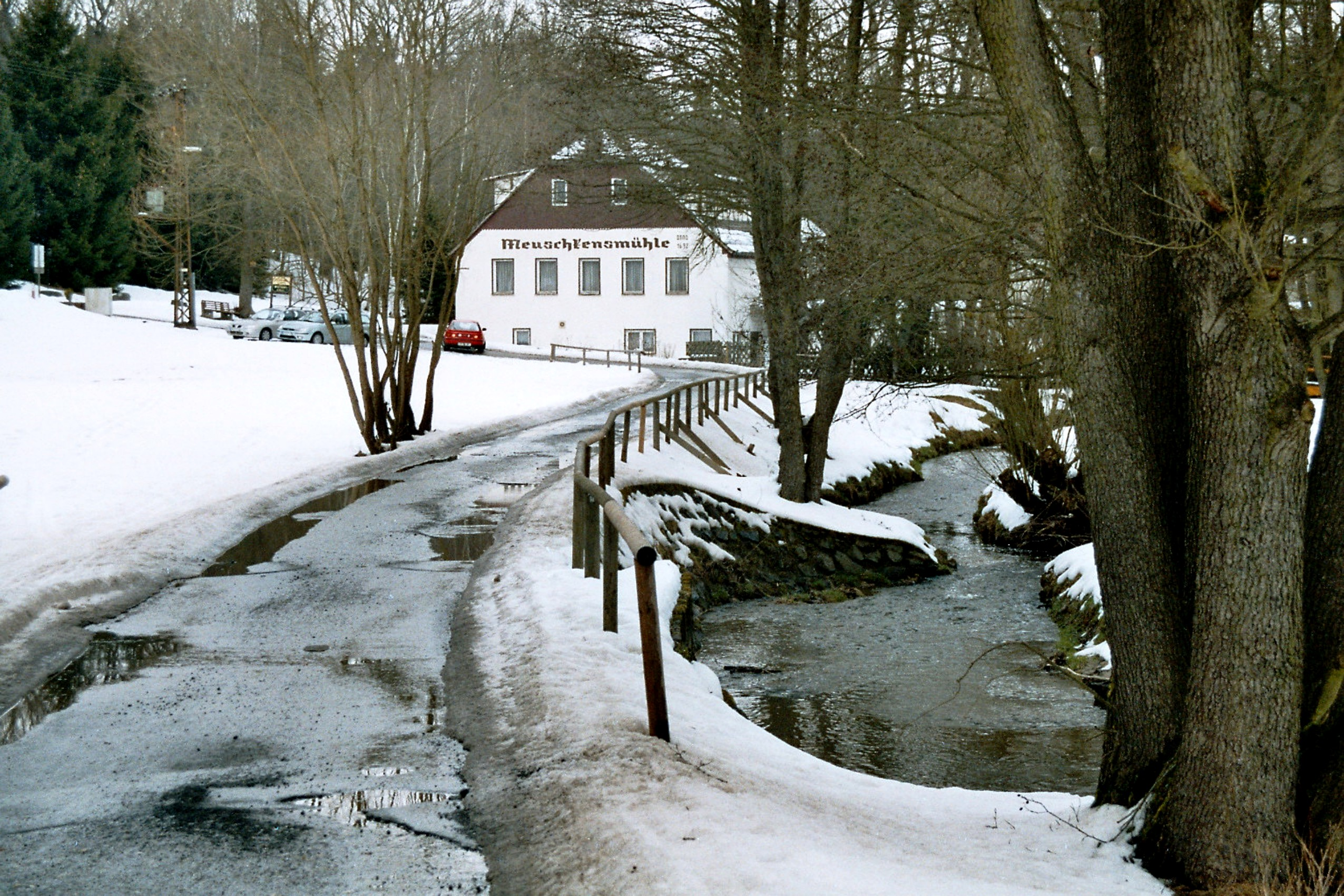 The watermill "Meuschkensmühle", today restaurant and pension, was site of activity of Milo Baros